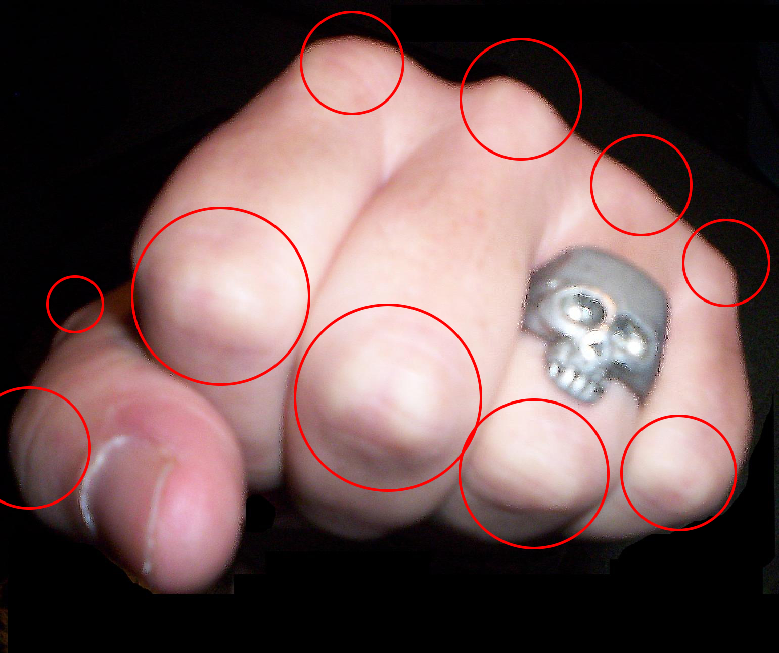 A fist with a skull ring with knuckles circled in red. Derived from File:HaRpOz Skull Ring Fist.JPG.